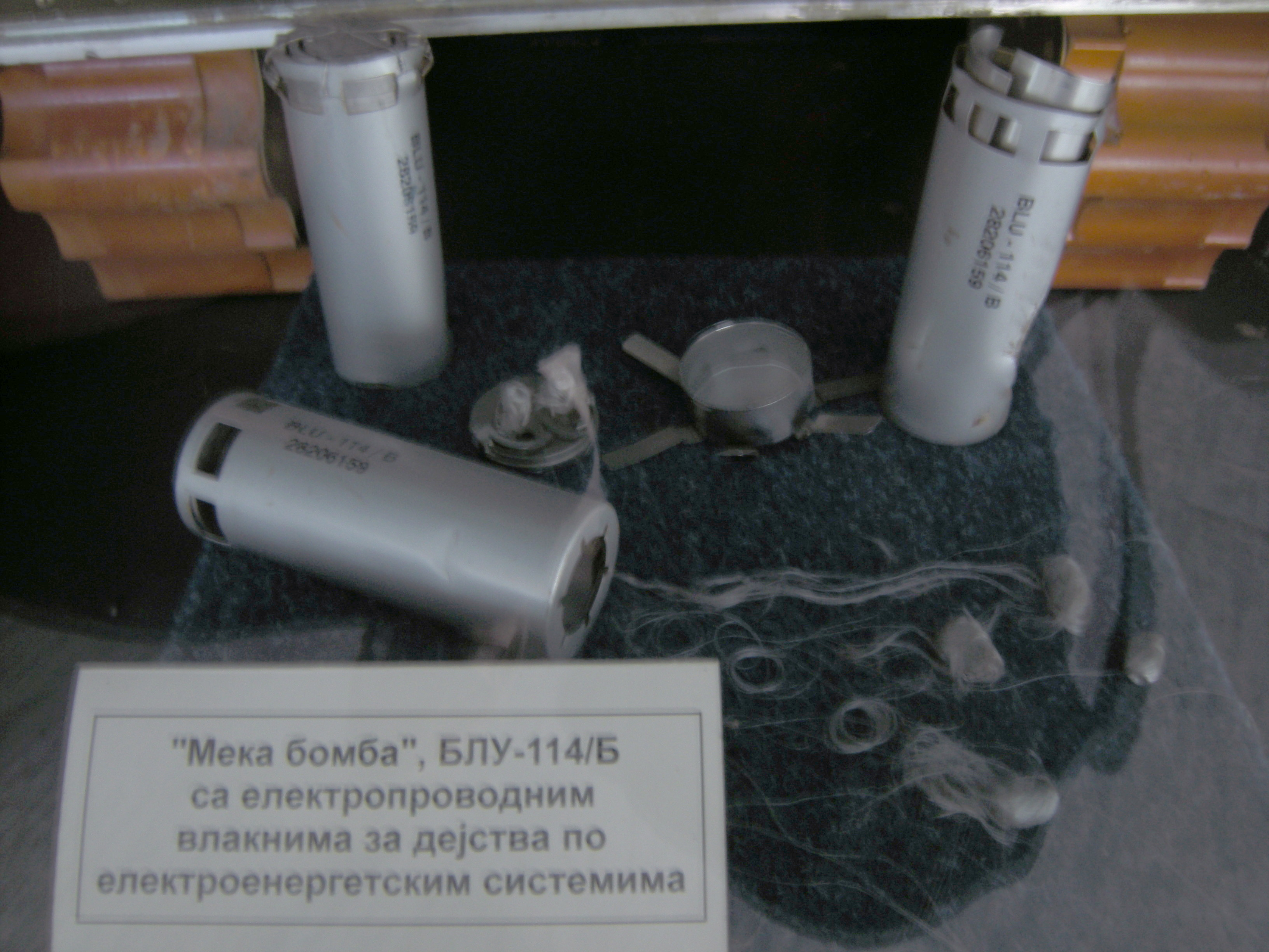 BLU-114B in Museum of Aviation in Belgrade, in the shadow: partially loosened coils